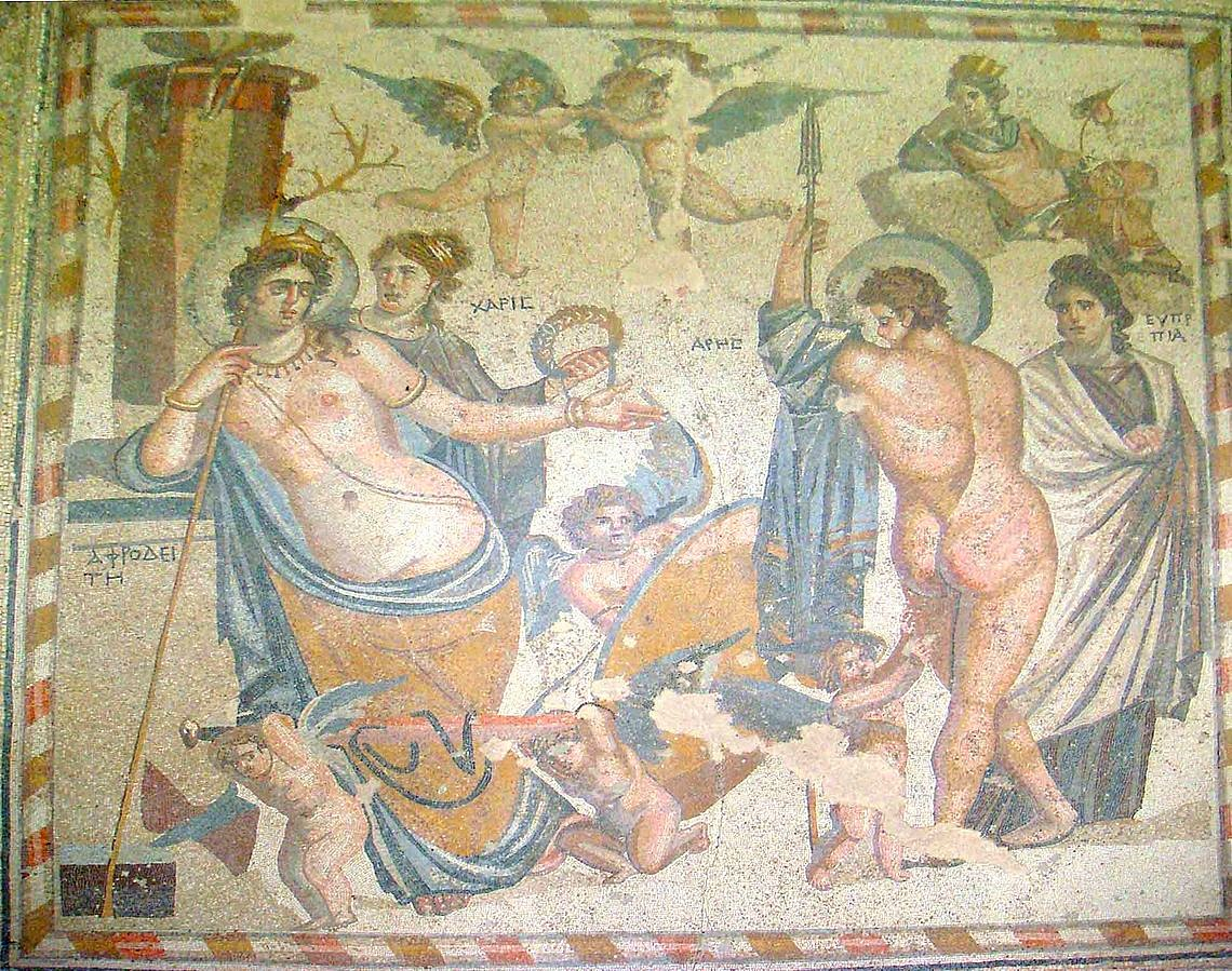 Shahba Roman Mosaics